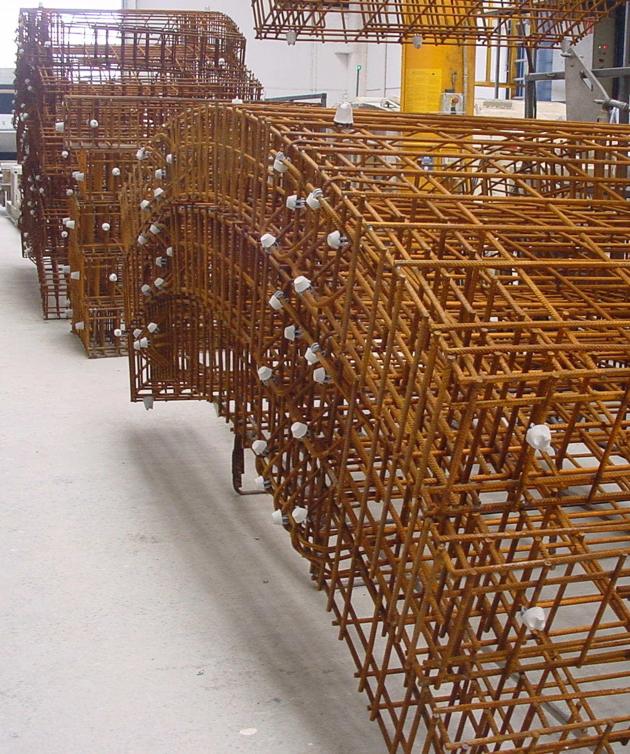 Spacers on Lining elements for a TBM tunnel.